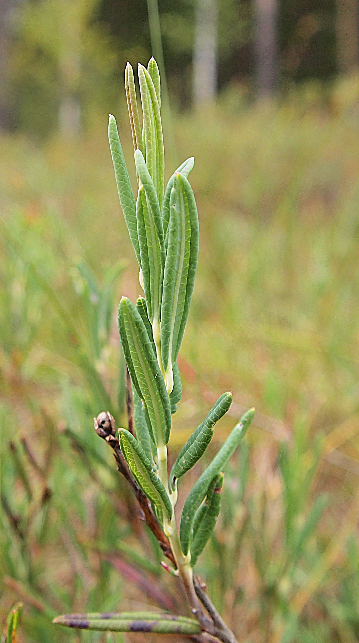 Green plant near Vuorilampi pond in Huhtasuo district, Jyväskylä.This photograph was taken with an Olympus E-PL1